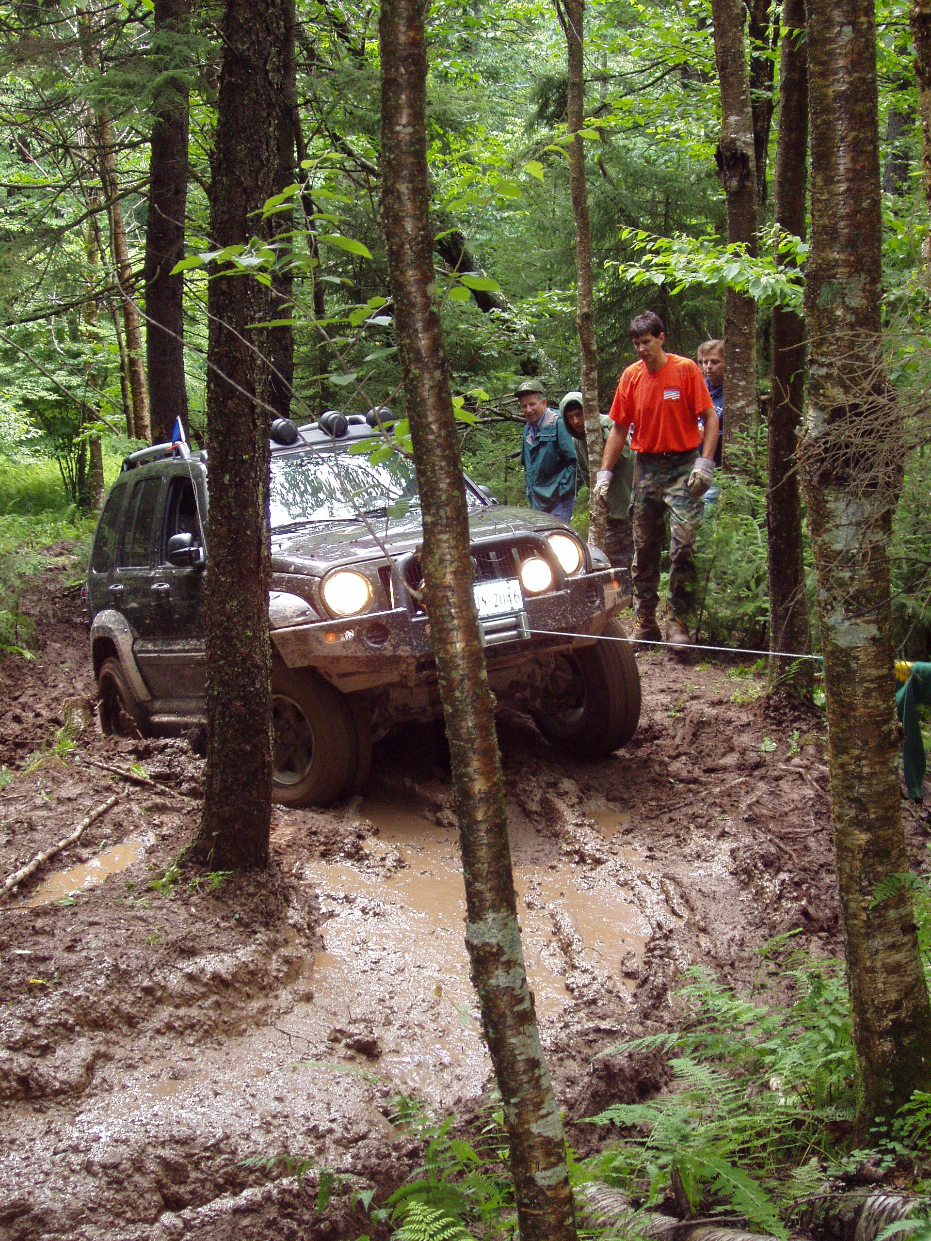 Jeep Liberty (KJ) recovering itself with a Warn M8000 winch at the 3rd Snowshoe Mountain Jeep Jamboree.